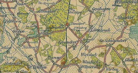 Historical Pharus-Map from 1903 (part). Ludwigsfelde and todays incorporated villages, district Teltow-Fläming, state Brandenburg.